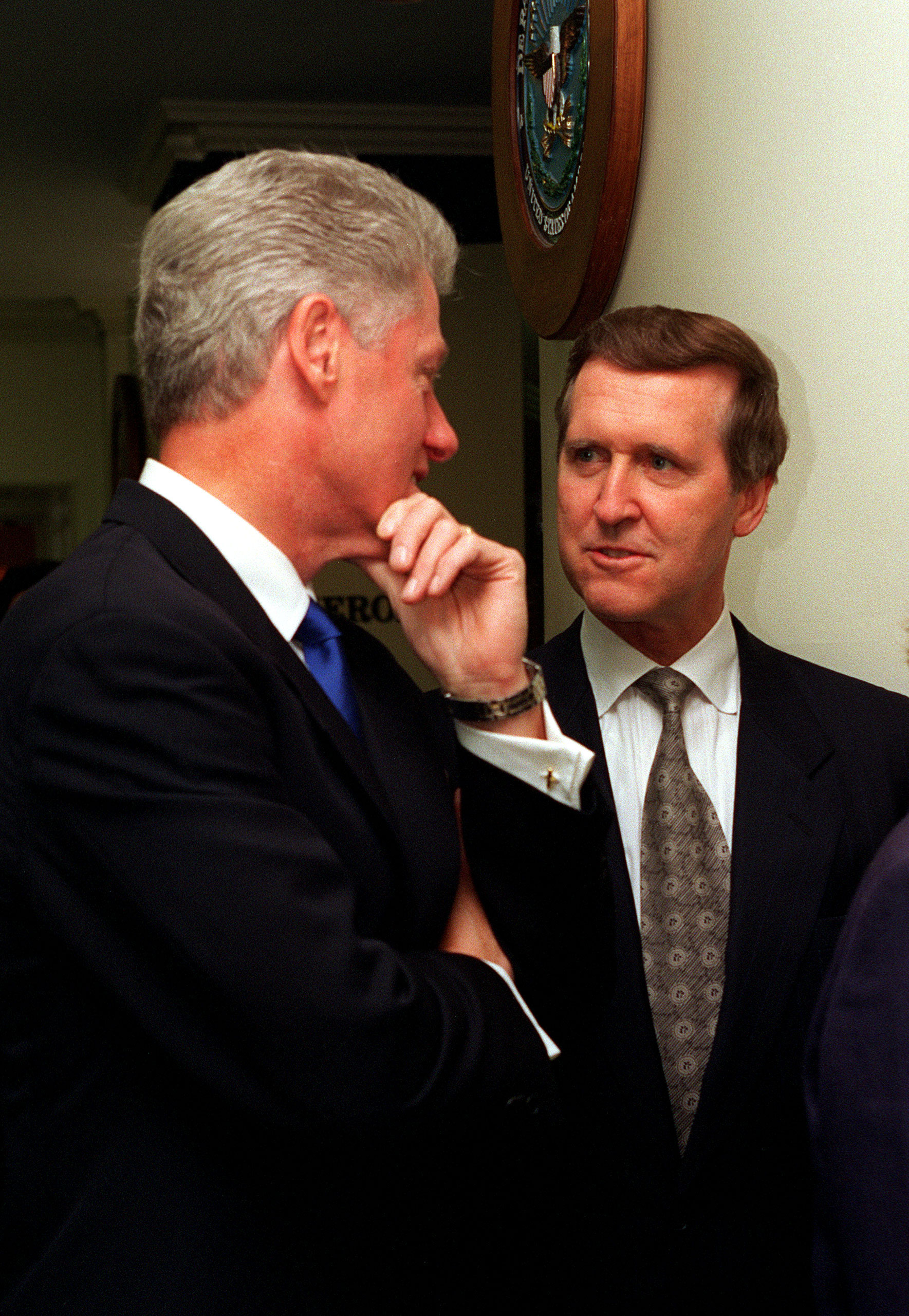 Secretary of Defense William Cohen (right) talks with President Bill Clinton (left) at the Pentagon. Clinton and Cohen are taking part in the celebration of the 50th anniversary of the U.S. Air Force.